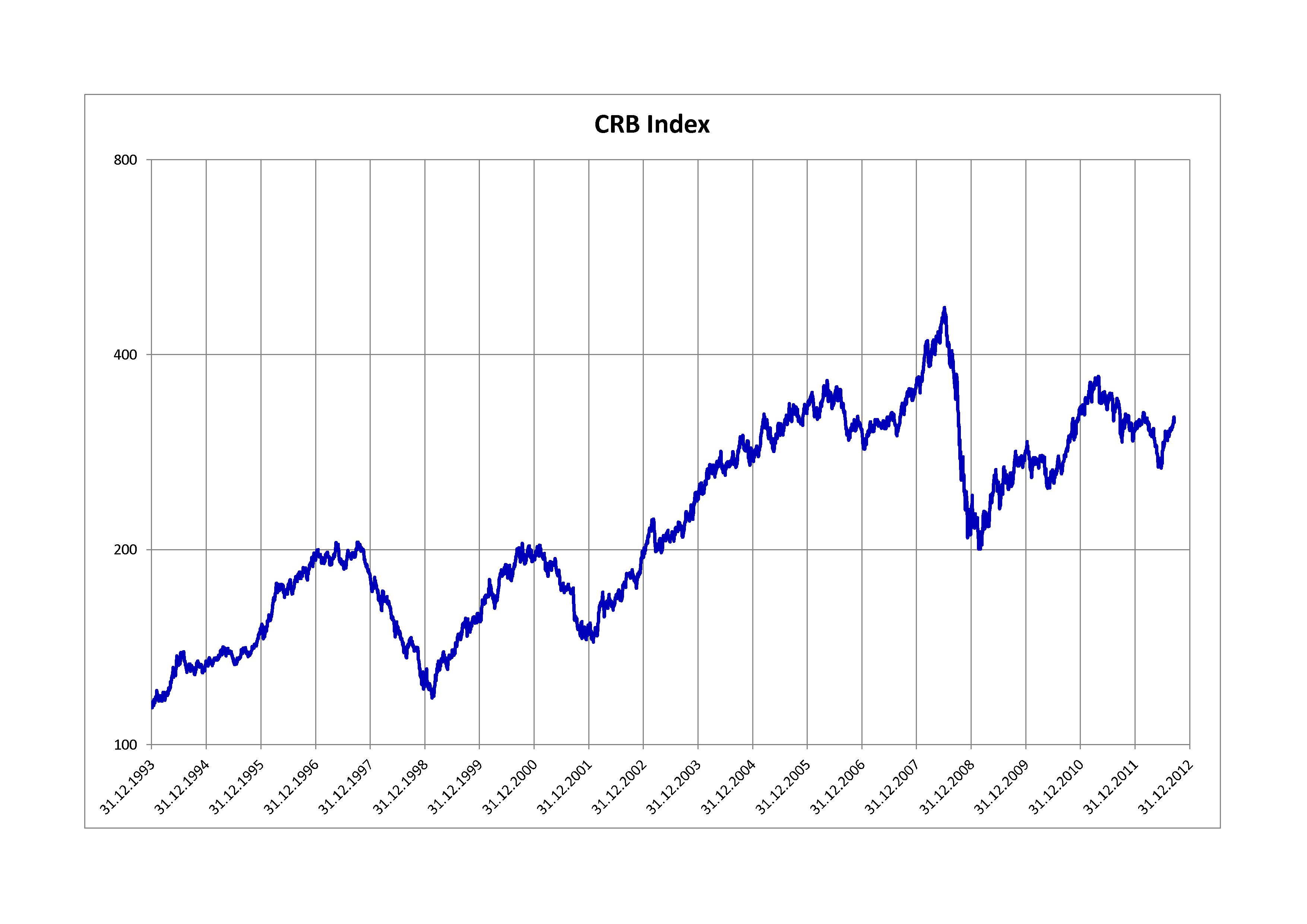 Thomson Reuters/Jefferies CRB Index from December 1993 to September 2012 (daily closings)